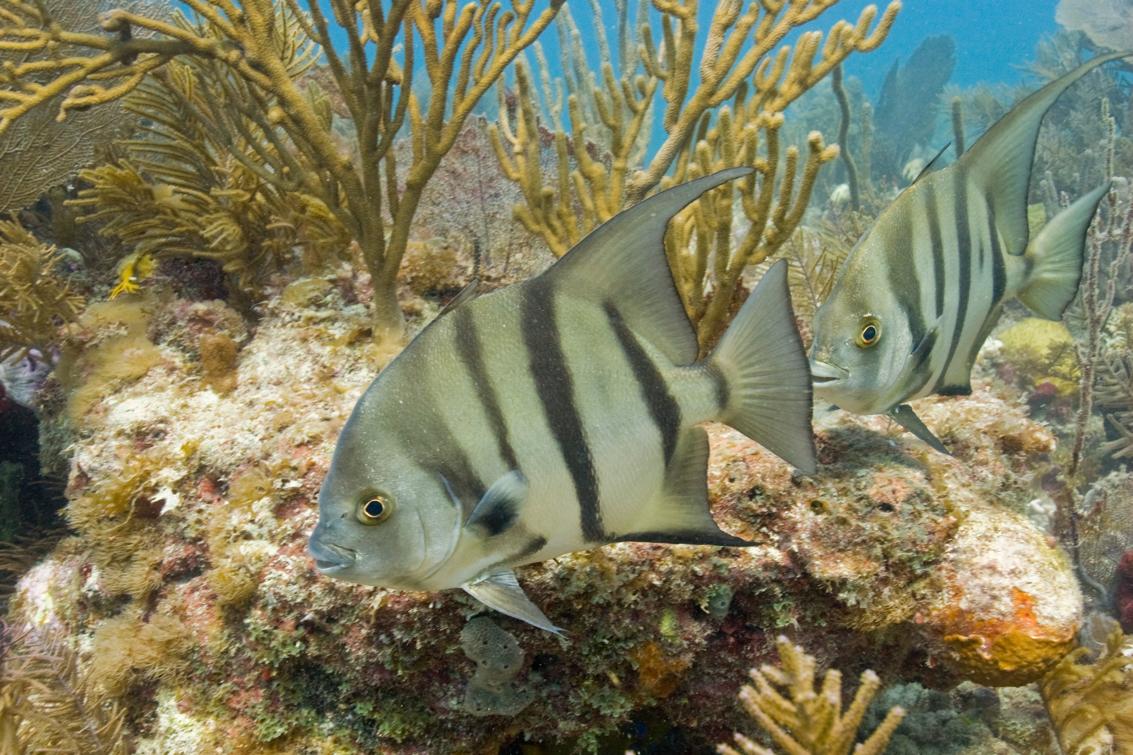 Spadefish (Chaetodipterus faber) in Biscayne National Park